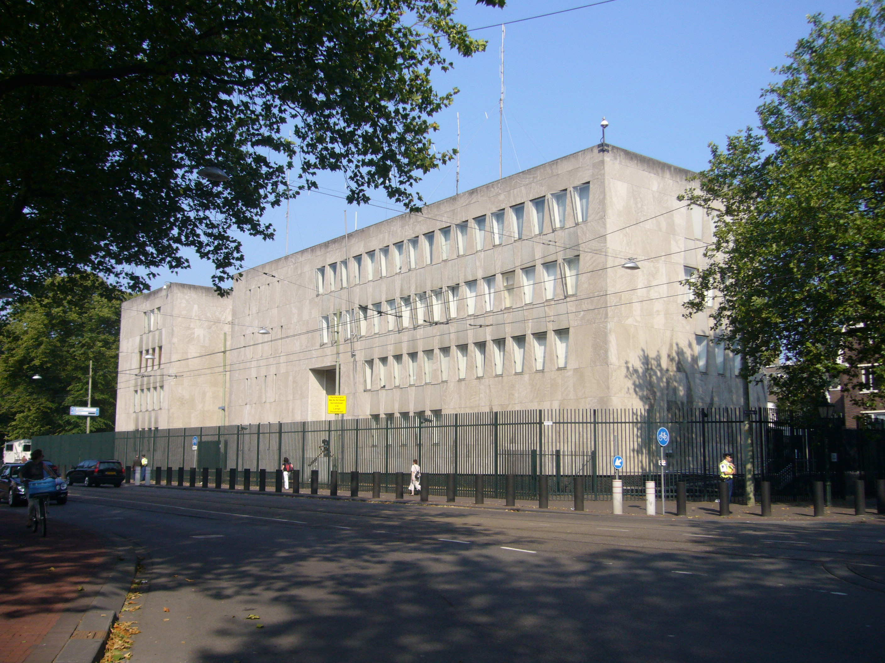 former US Embassy in The Hague